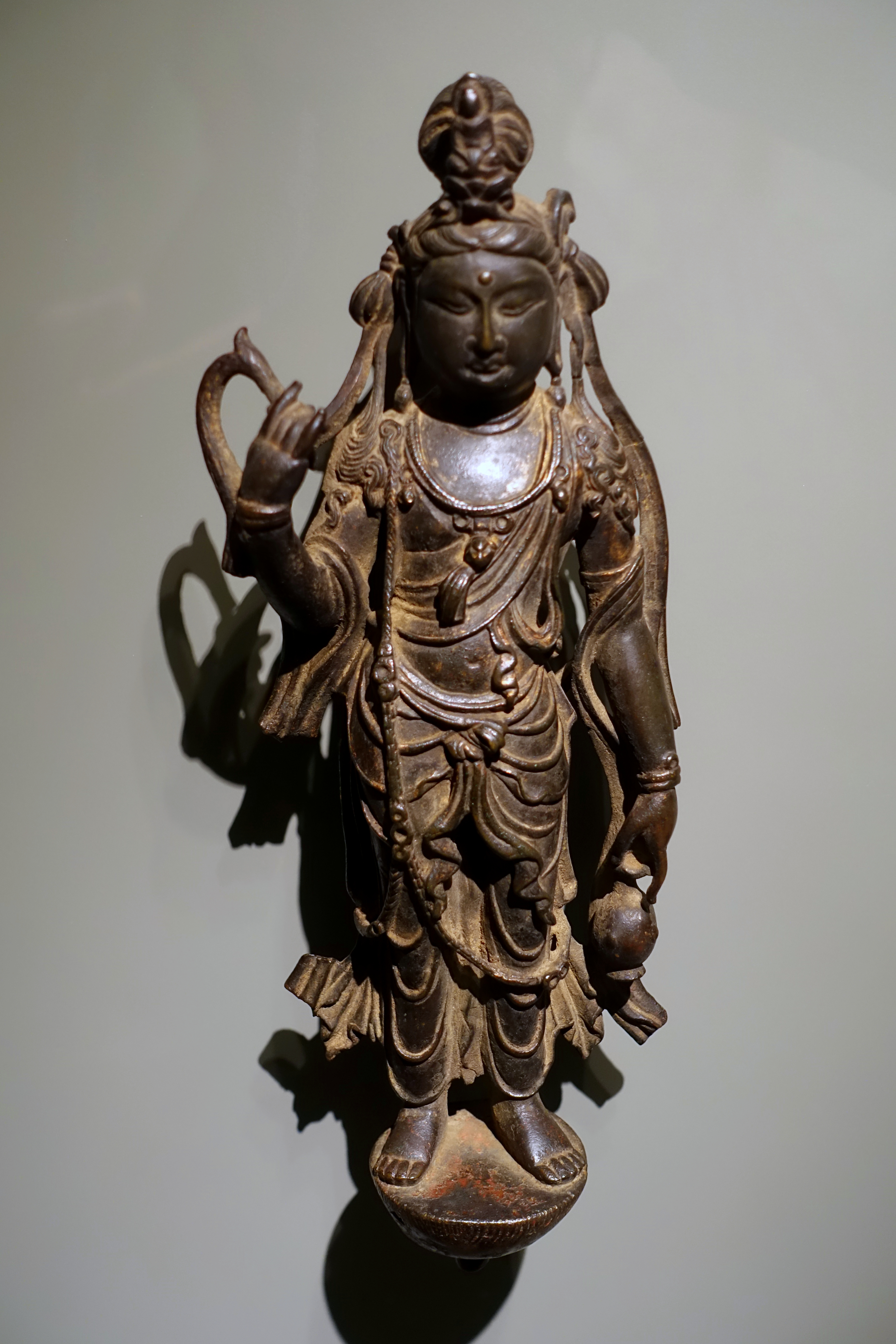 Exhibit in the Wadsworth Atheneum - Hartford, Connecticut, USA. This artwork is old enough so that it is in the public domain.